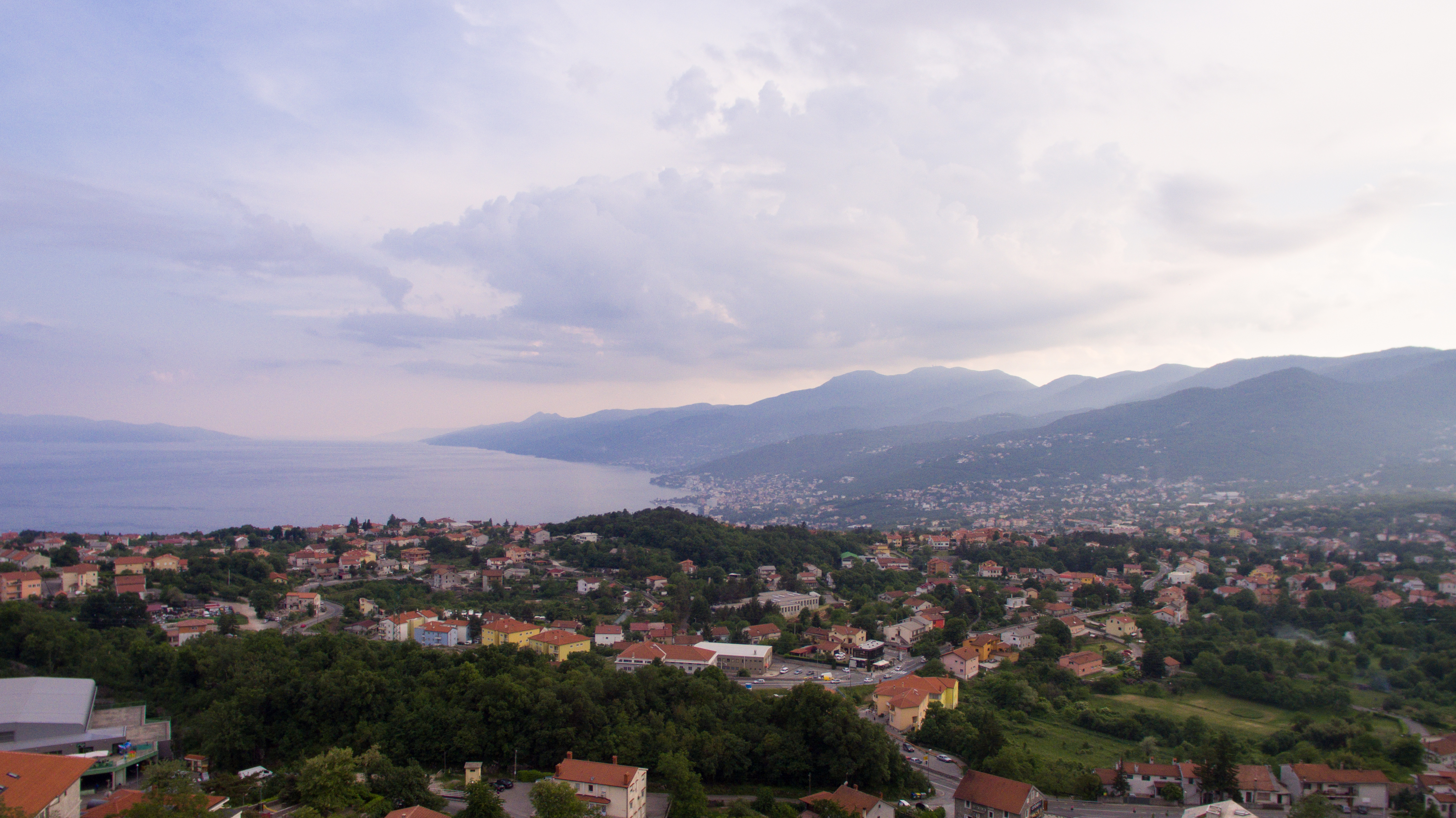 City of Kastav